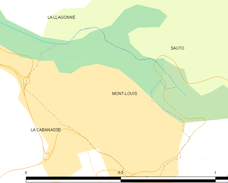 Map of French municipality